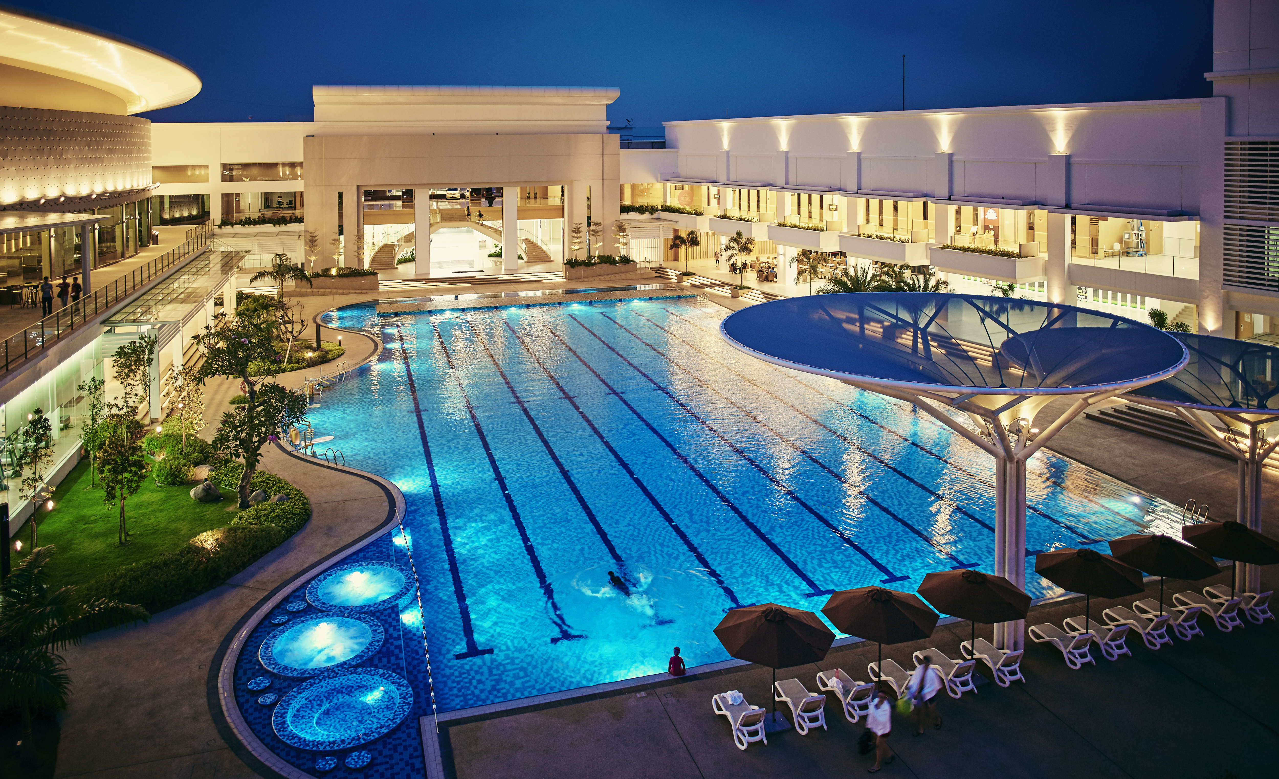 Aerial view of d' Tempat Country Club